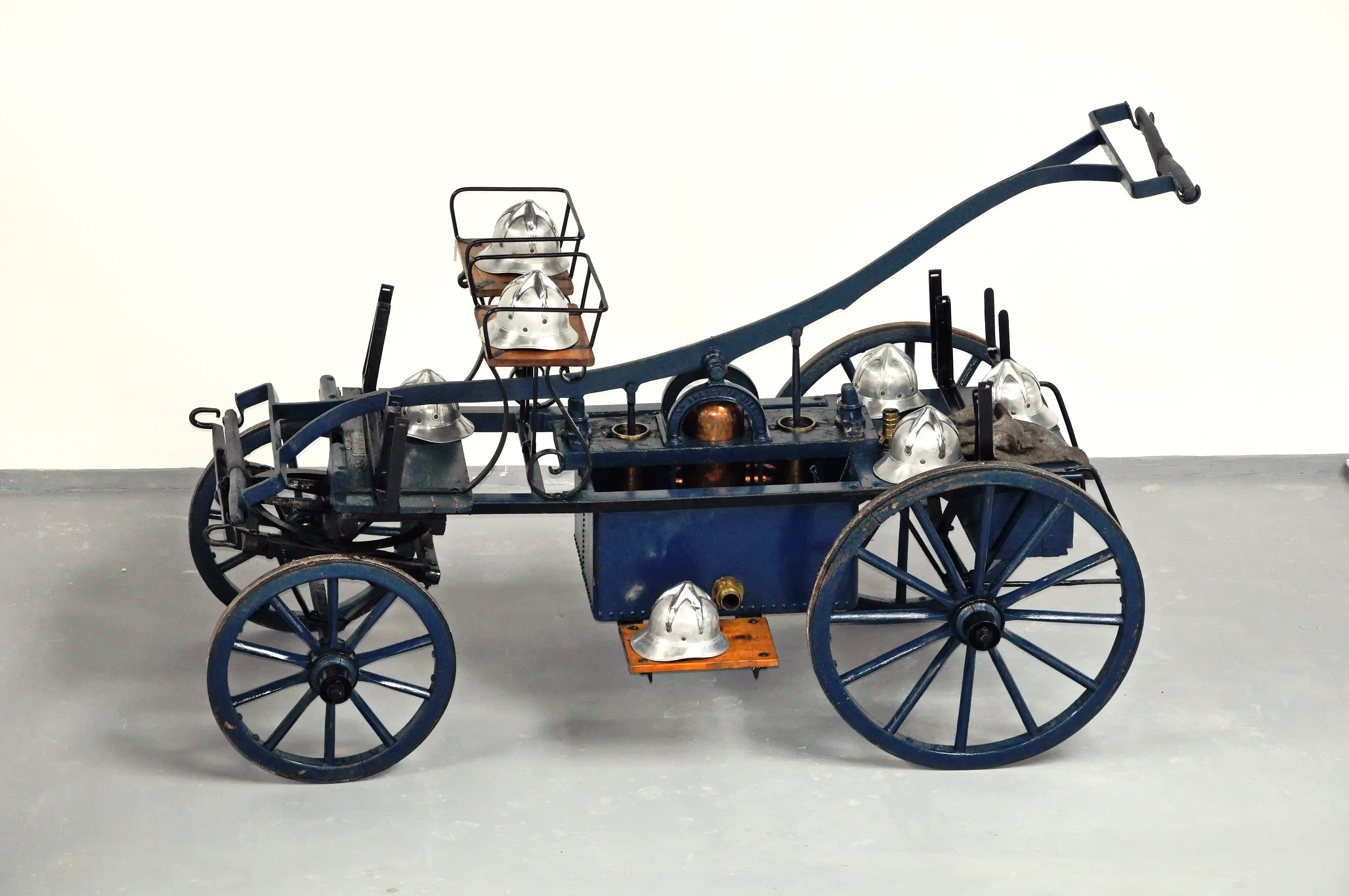 Firemen's carriage, 1890-1920. It is located in Museum of Science and Technology Belgrade.